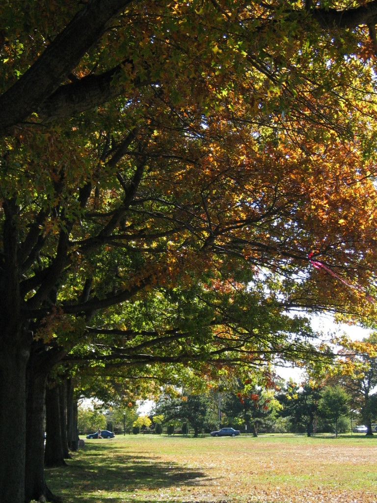 Tree-lines alley of Marine Park